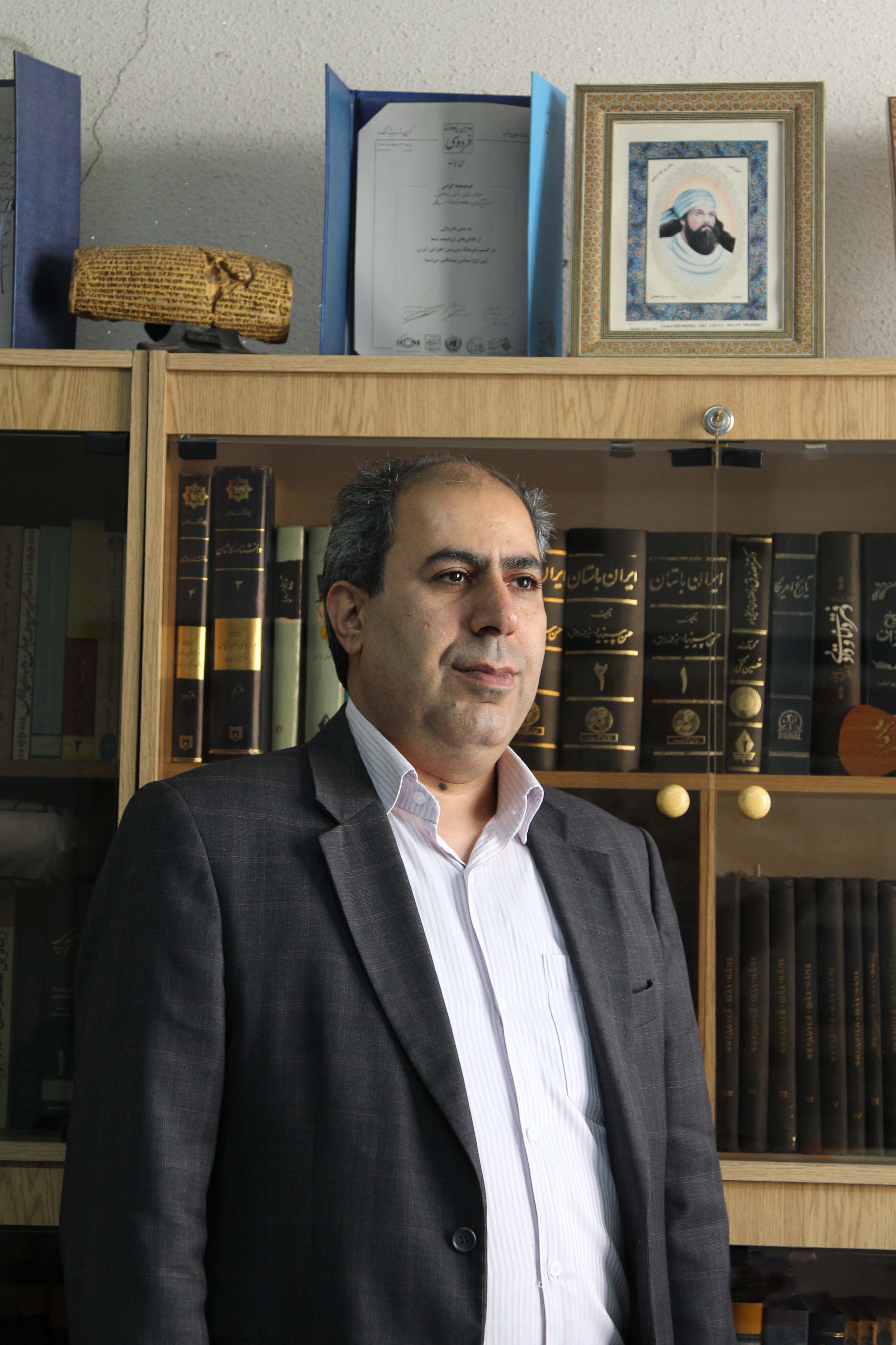 Babak Salamati, Director and Editor-in-chief of Amordad Weekly Newspaper